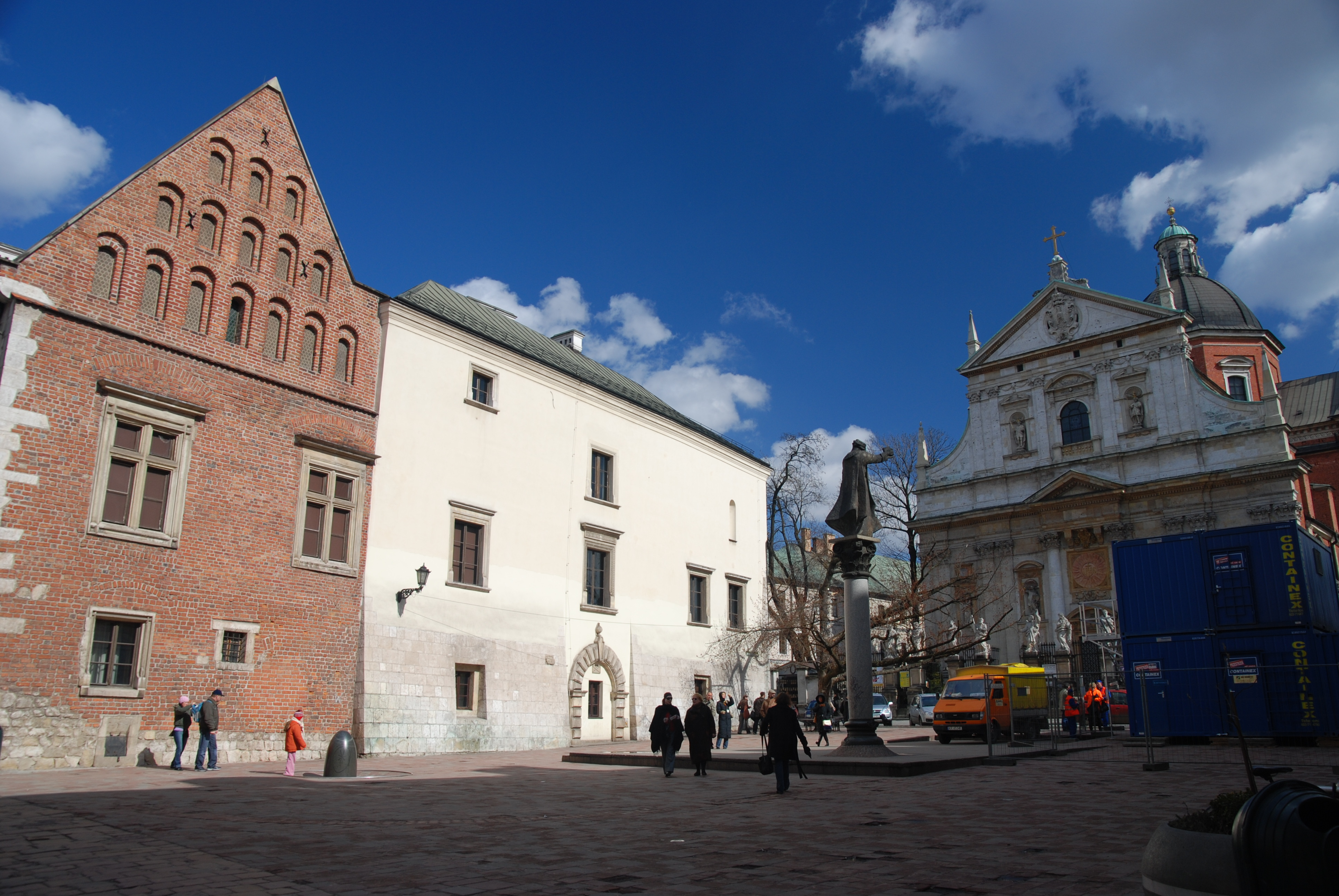 Piotr Skarga monument, Maria Magdalena Square, Kraków, Poland by Czesław Dźwigaj